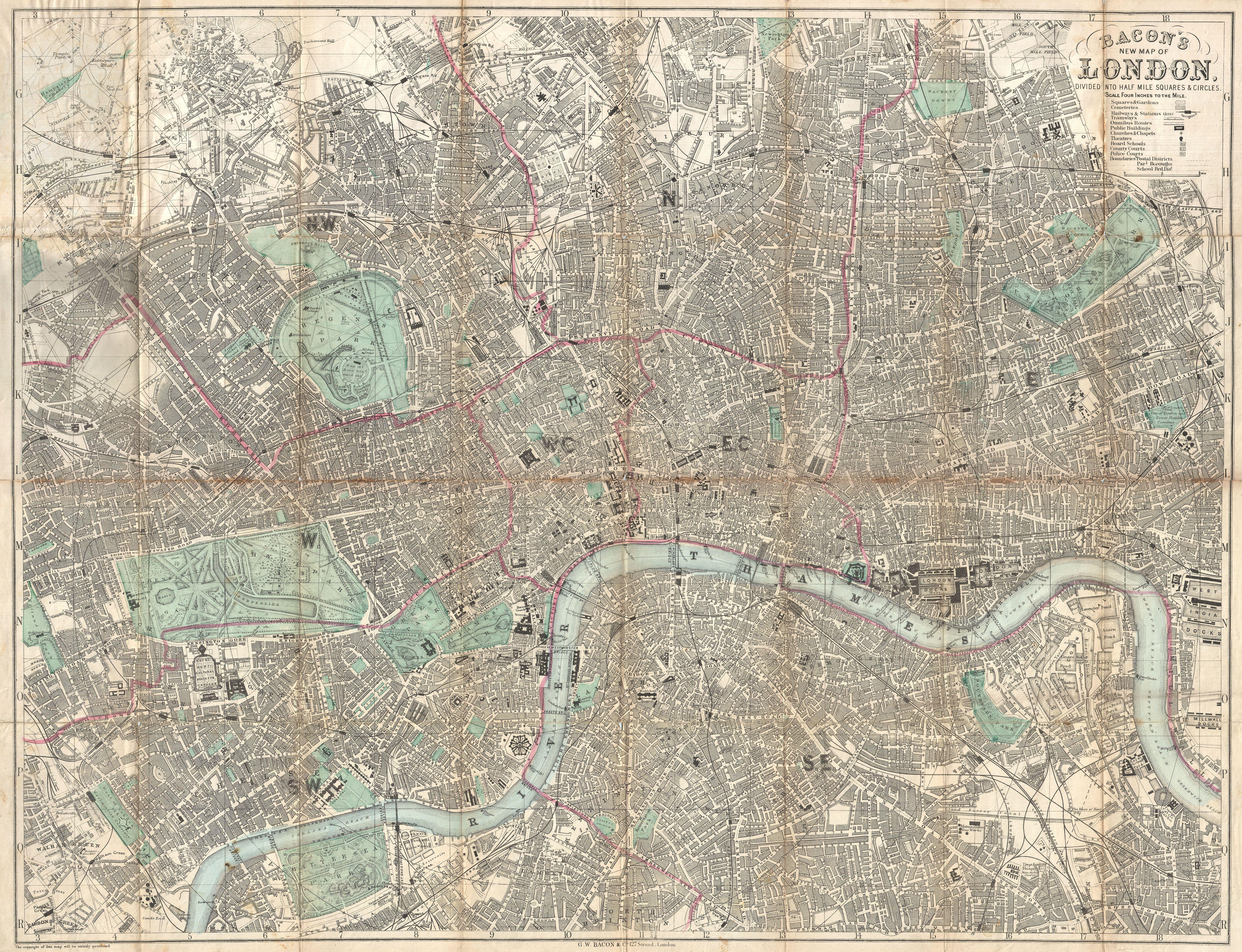 An extremely attractive c. 1890 traveler's pocket map of Victorian London, England. Covers central London on a scale of four inches to the mile - from West Kensington in the west across to the West India Docks in the east, and from Hampstead down to North Brixton and Camberwell. Offers extraordinary detail throughout noting streets, trains, ferries, docks, and important buildings. Parks are particularly well produced with superb detail on the interior. Concentric circles radiate out from Charing Cross to indicate half mile distances from the city center. Published by George Washington Bacon of 127 Strand, London.